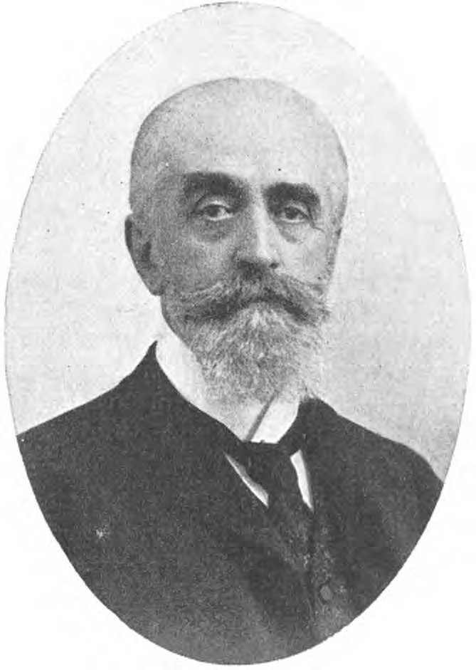 nameJhr. P. M. G. VON FISENNE political affiliationPolitical Catholicism positiemember of the Senate of the Netherlands districtSouth Holland period21 September 1904-1910